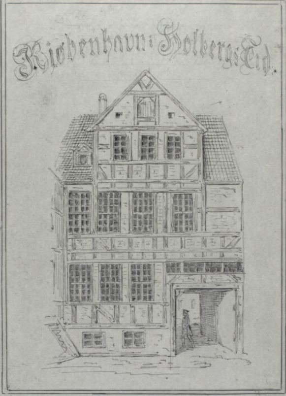 Verdelins gård, now Admiral Gjeddes Gård, at Store Kannikestræde 10 in Copenhagen, Denmark